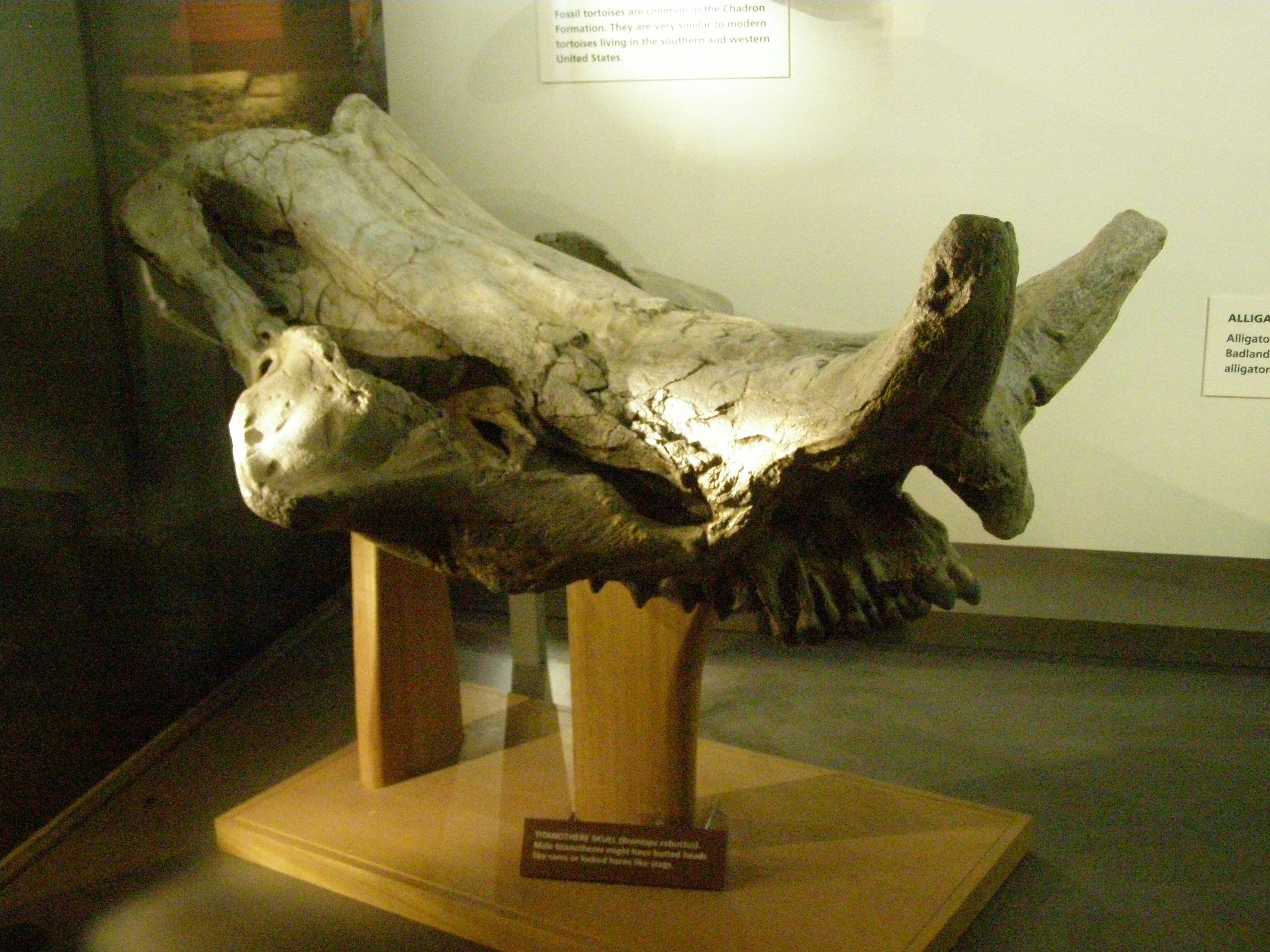 Diorama in the Visitor Center.